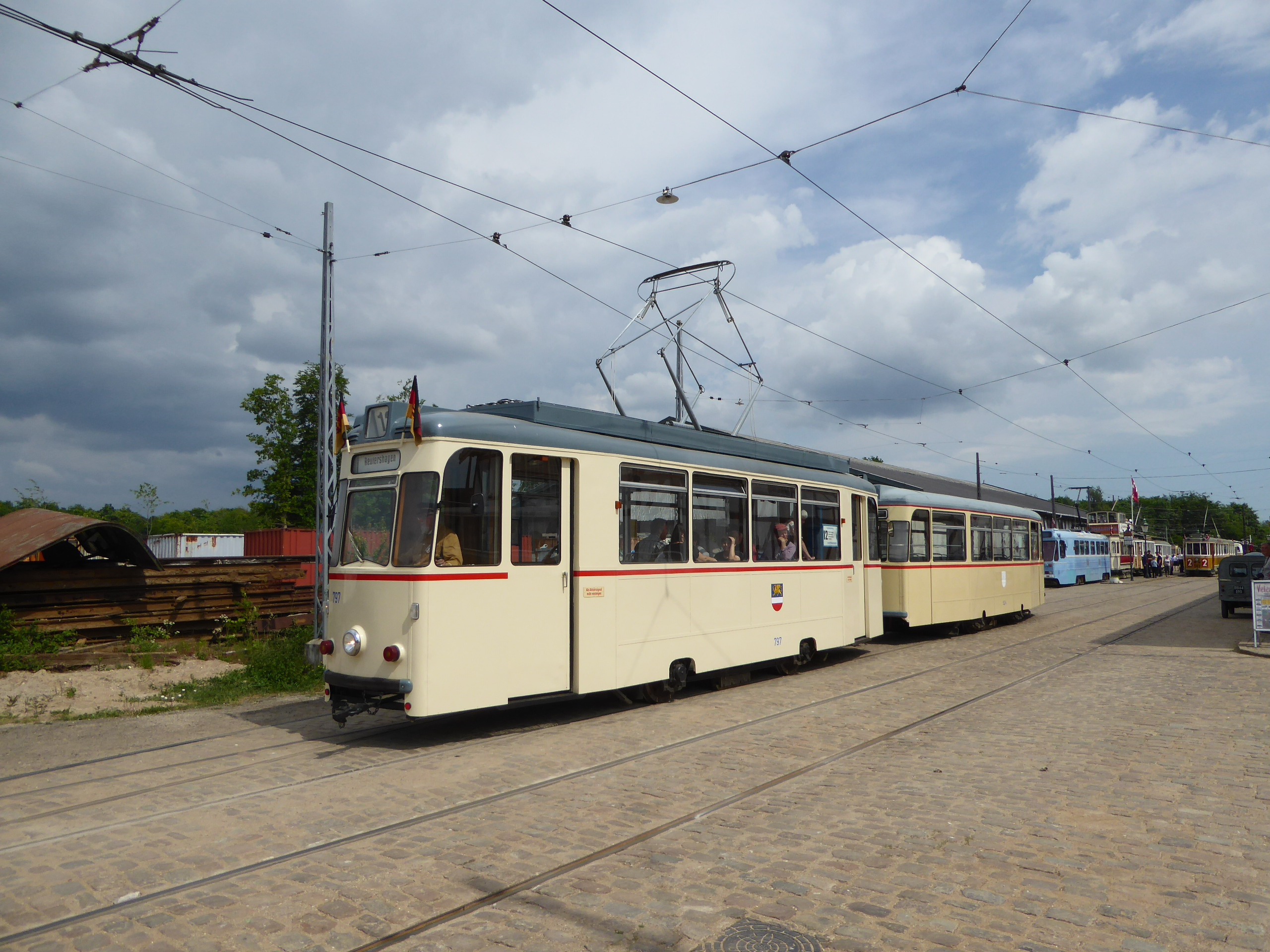 40 years anniversary of the tramway museum Sporvejsmuseet Skjoldenæsholm in Denmark. Old trams from Rostock, RSAG 797 from 1976 and RSAG 924 from 1967.